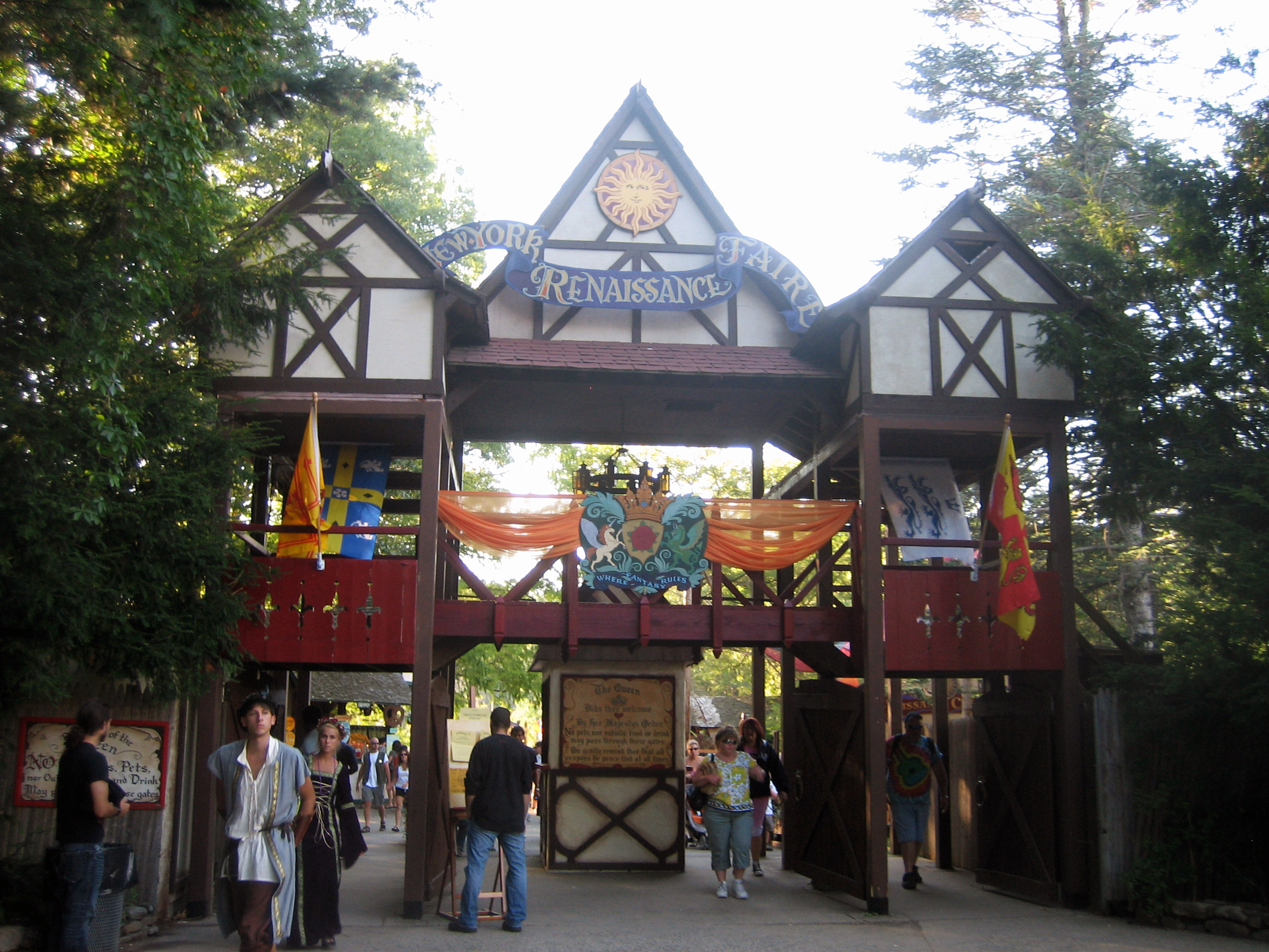 Entry gate to the New York Renaissance Faire in Tuxedo Park, NY.